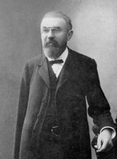 Henri Poincaré, photograph from the frontispiece of the 1913 edition of "Last Thoughts"